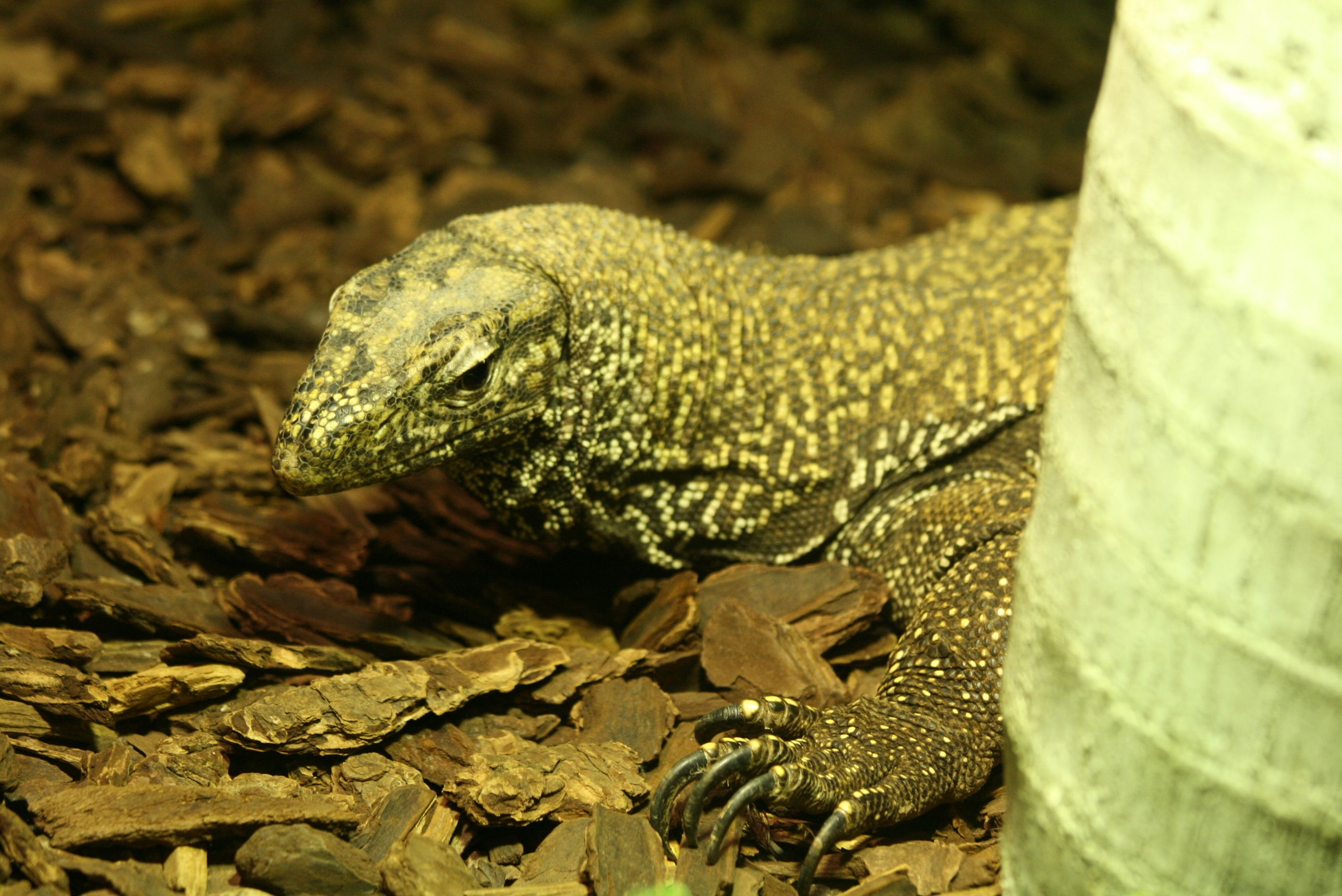 (Varanus nebulosus), Parc Paradisio, Hainaut, Belgium.